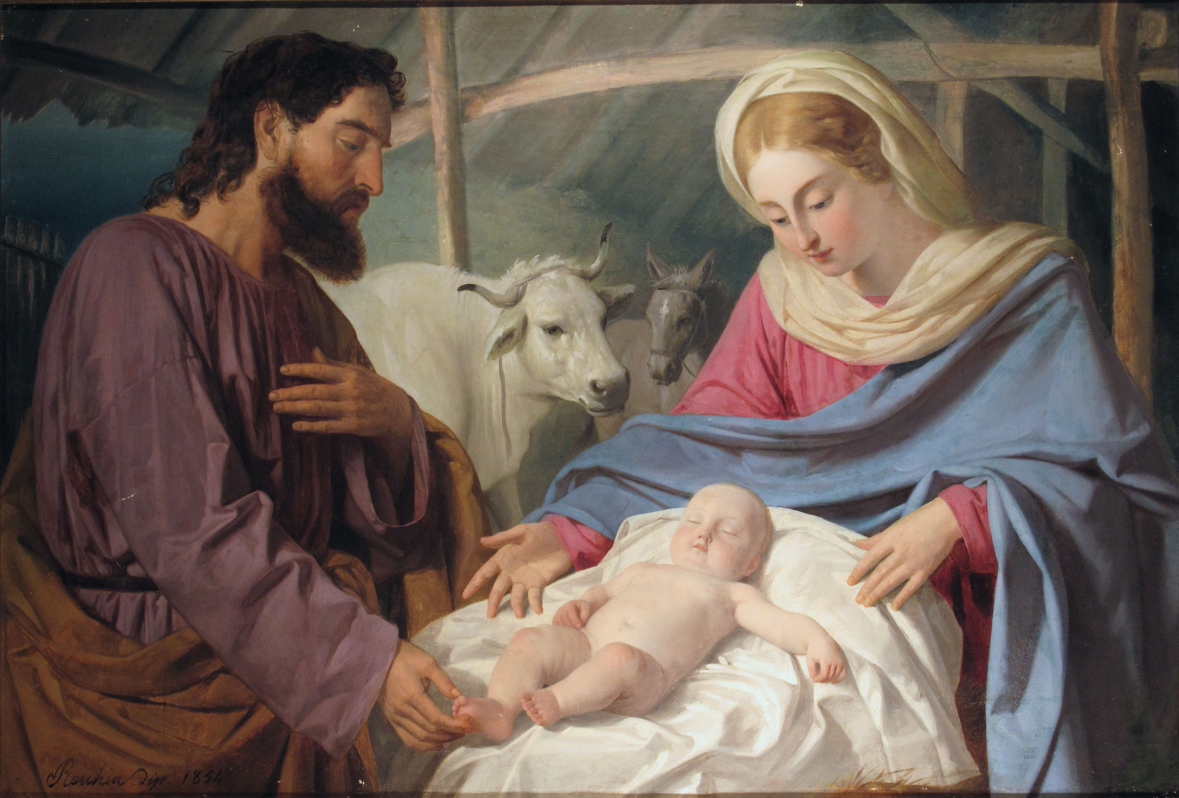 A 19th century painting of the Holy Family. Signed by the artist at lower left.